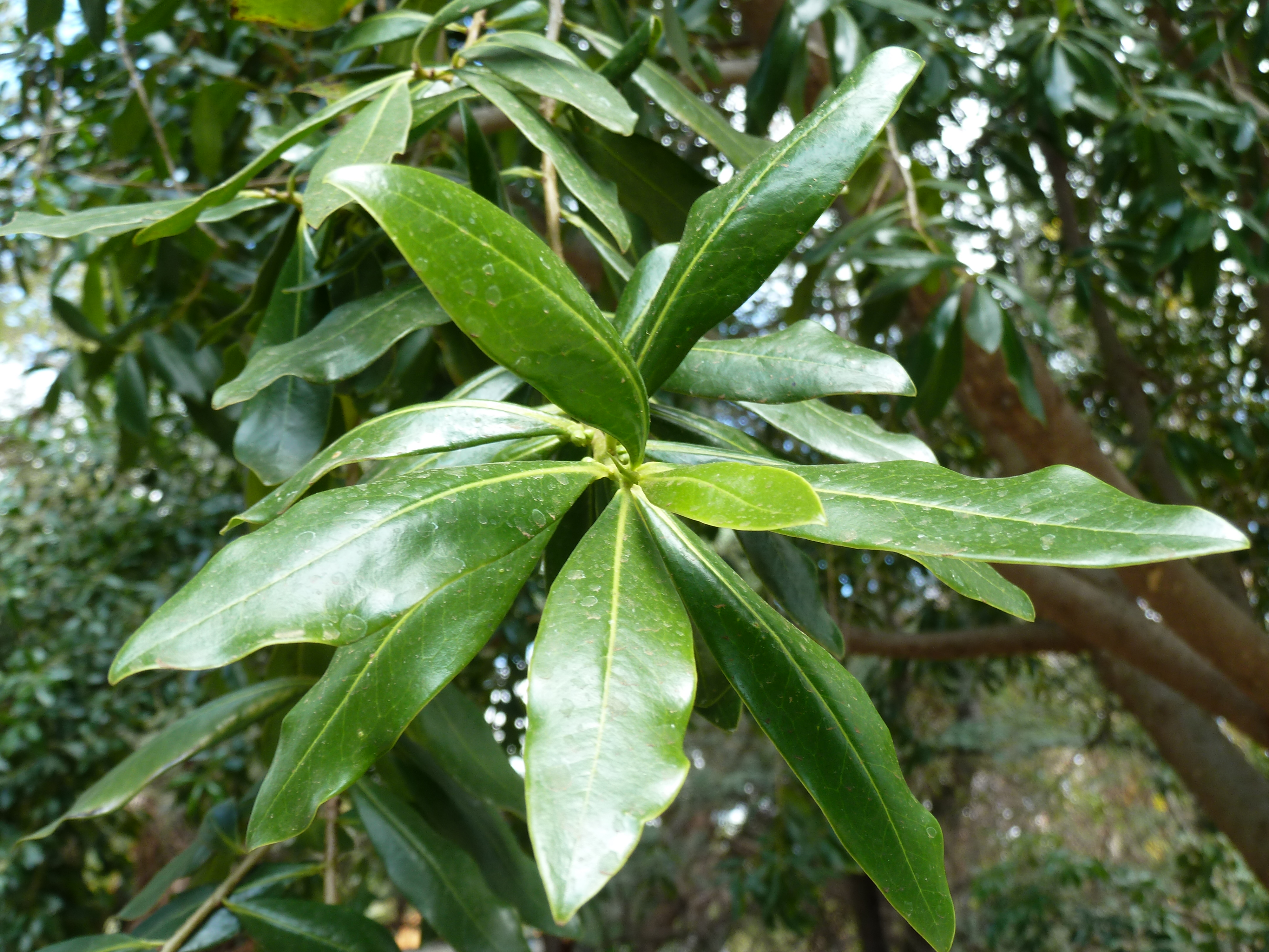 Foliage of an Ironwood tree in Pretoria